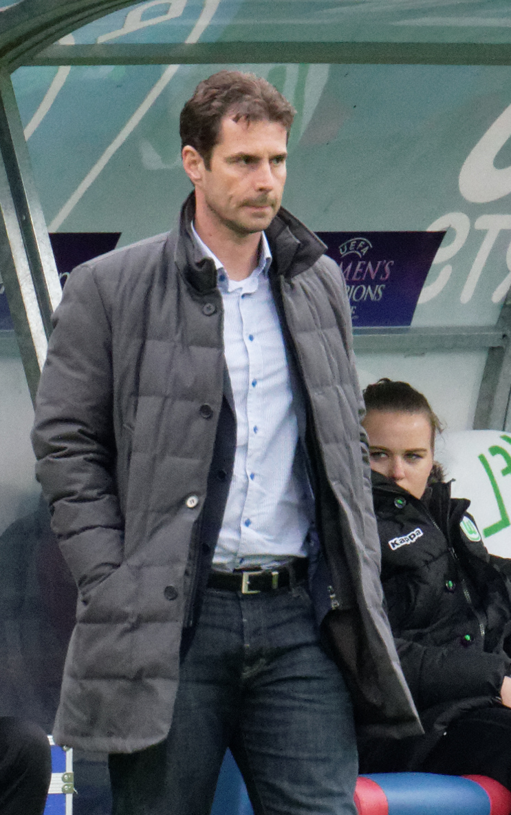 UEFA Women's Champions League, PSG - Wolfsburg, 26 April 2015.